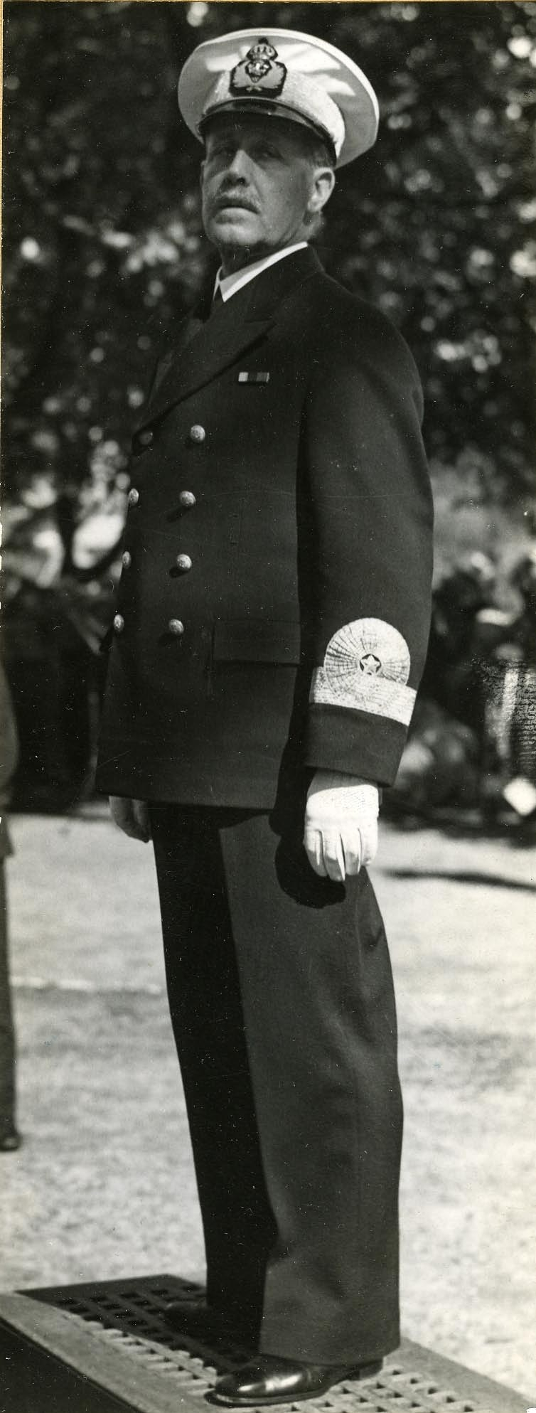 Vice admiral Hans Simonsson age 70. Wearing rear admiral's sleeve insignias.